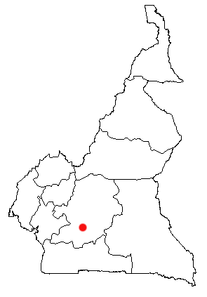 Yaounde, Cameroon Location Map; created with the GIMP. Made by User:Acntx.